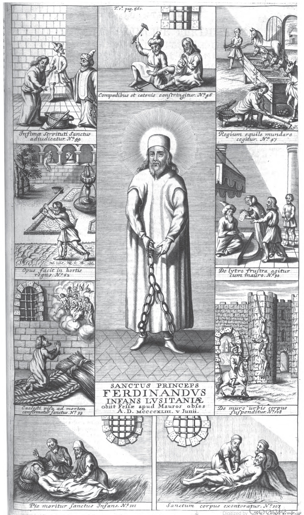 Illustration of the life and martyrdom of Ferdinand the Holy Prince (Fernando o Infante Santo), a Portuguese royal prince who died in captivity in Fez (Morocco) in 1443, as included in the 17th C. Bollandist collection Acta Sanctorum (Antwerp) for the first volume of the month of June (vol.20), first published in 1695 (p.561). This is the only known image which represents Ferdinand the Holy Prince with a saintly nimbus. In the accompanying note (p.562), the Bollandist author Daniel Paperbrock writes that he united in one image ten small tables (accipe una in tabula tabellas decem) sent to him that were said to be originally ten woodcuts in a 1577 quarto edition of the chronicle of the prince's life by Frei João Álvares, and he supposes they were originally copied from an altar retable and that they originally did not have any nimbus. (quas ex altaris praedicti tabula sumptas, licet radios nullos hic videas) (Note: the only existing copy of the 1577 edition of Álvares chronicle, held by the national library in Lisbon is of octavo size has no such woodcuts; the retable Paperbrock refers to is probably the tryptych (lost since c.1808) at Ferdinand's chapel at Batalha monastery that was ostensibly painted in 1539 by Cristóvão de Figueiredo, commissioned in the will of dowager-queen Eleanor of Viseu (widow of John II of Portugal). This Acta Sanctorum image is the only visual trace that remains of the original 1539 retable piece.